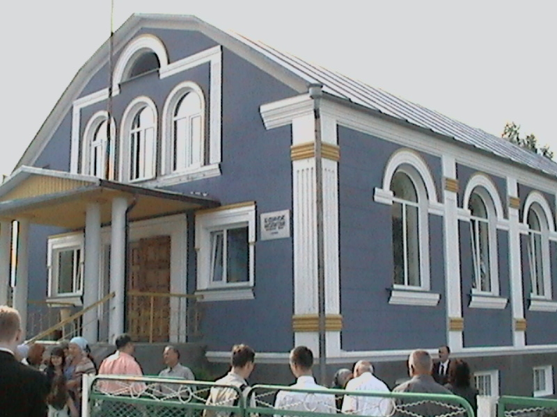 Hall Laymen's Home Missionary Movement in Orlovka, Berezne Raion, Ukraine